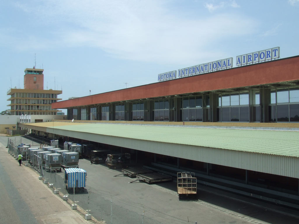 Accra Kotoka International Airport, showing the main terminal and control tower viewed from one of the two departure piers.